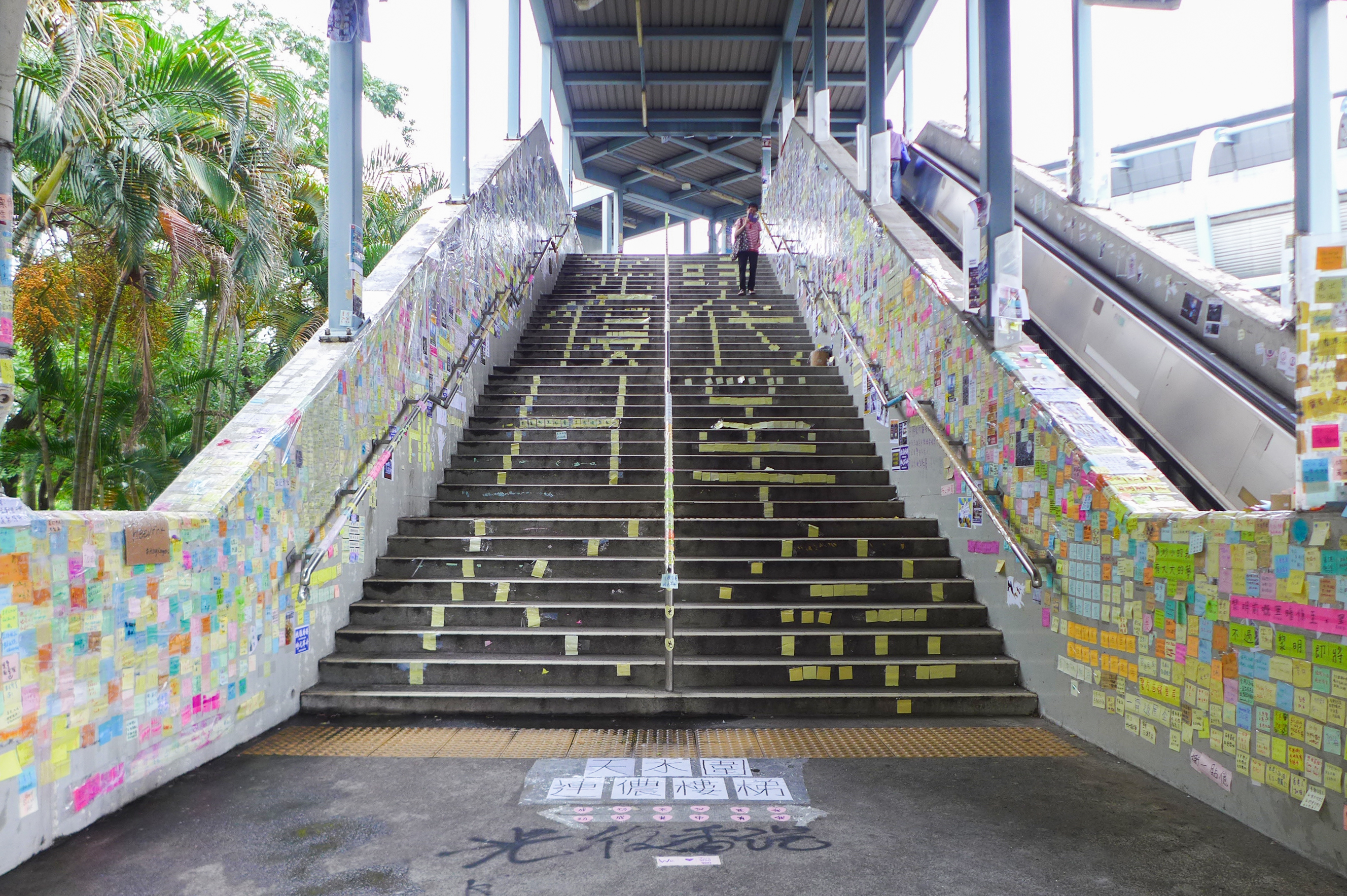 Tin Shui Wai Station Exit C Lennon Stair